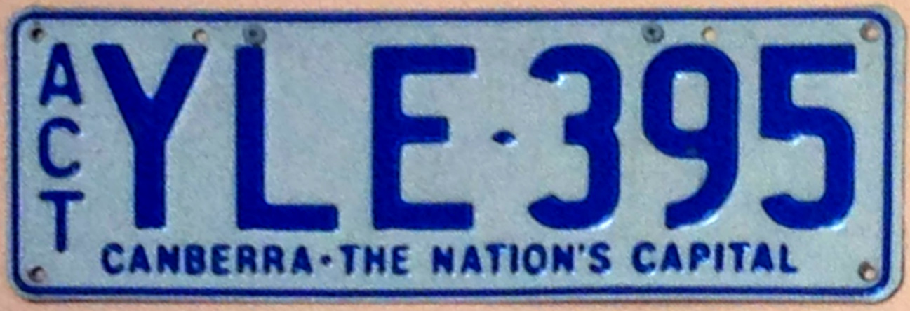 Found in an Australian-themed eating place in California's Great America theme park, Santa Clara, California